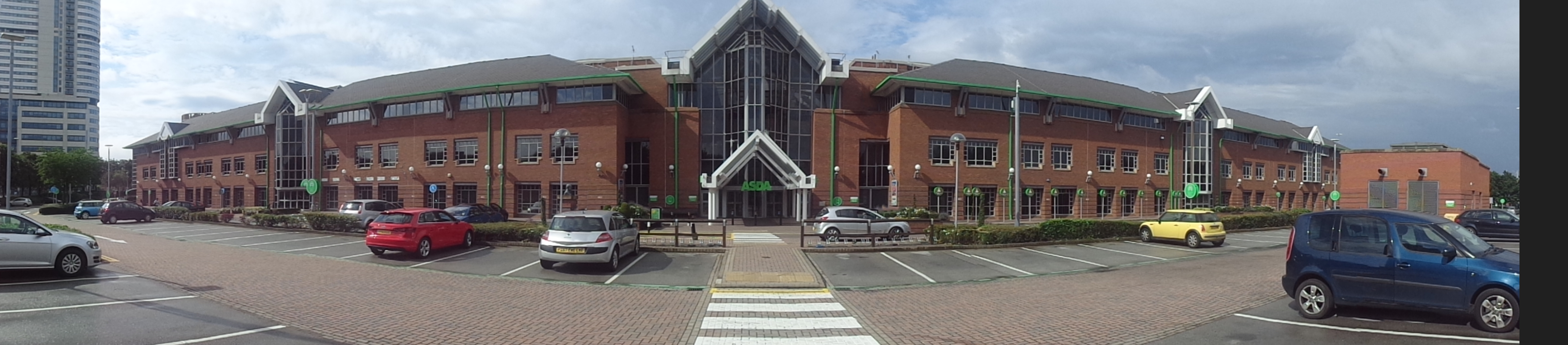 Asda House, Leeds, West Yorkshire. Taken on the afternoon of Saturday the 19th of July 2014.